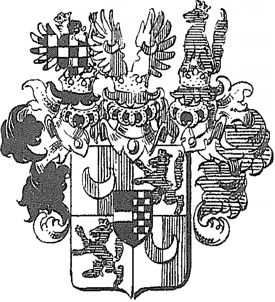 Coats od arms of counts Egkh of Hungersbach